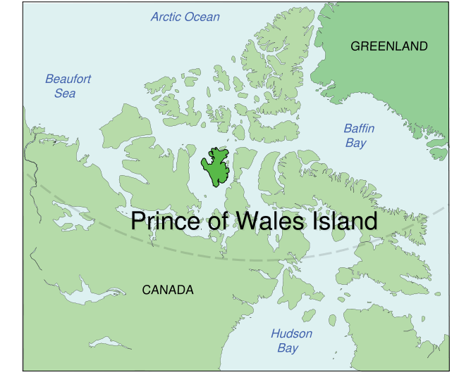 Created based on images from the CIA's World Fact Book.